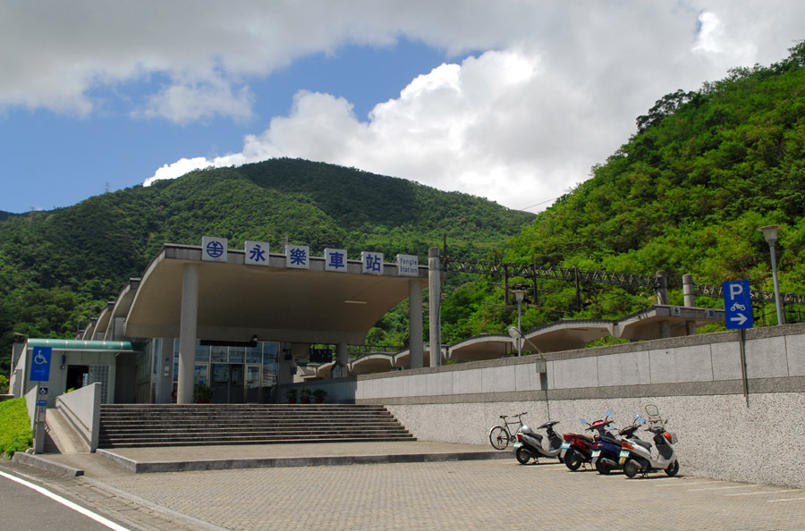 YongLe Station is a small local train station of North-Link Line, part of Taiwan's eastern rail line. It's located within the boundary of Suao Town.